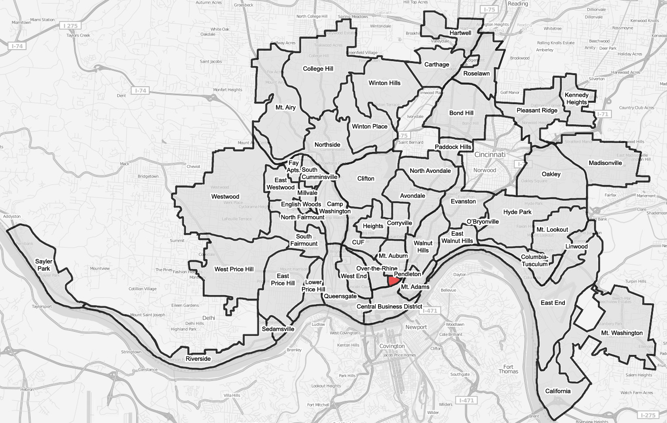 A map of the neighborhood of Pendleton within Cincinnati, Ohio. Neighborhood lines are based on information from This street map is derived from a free map.